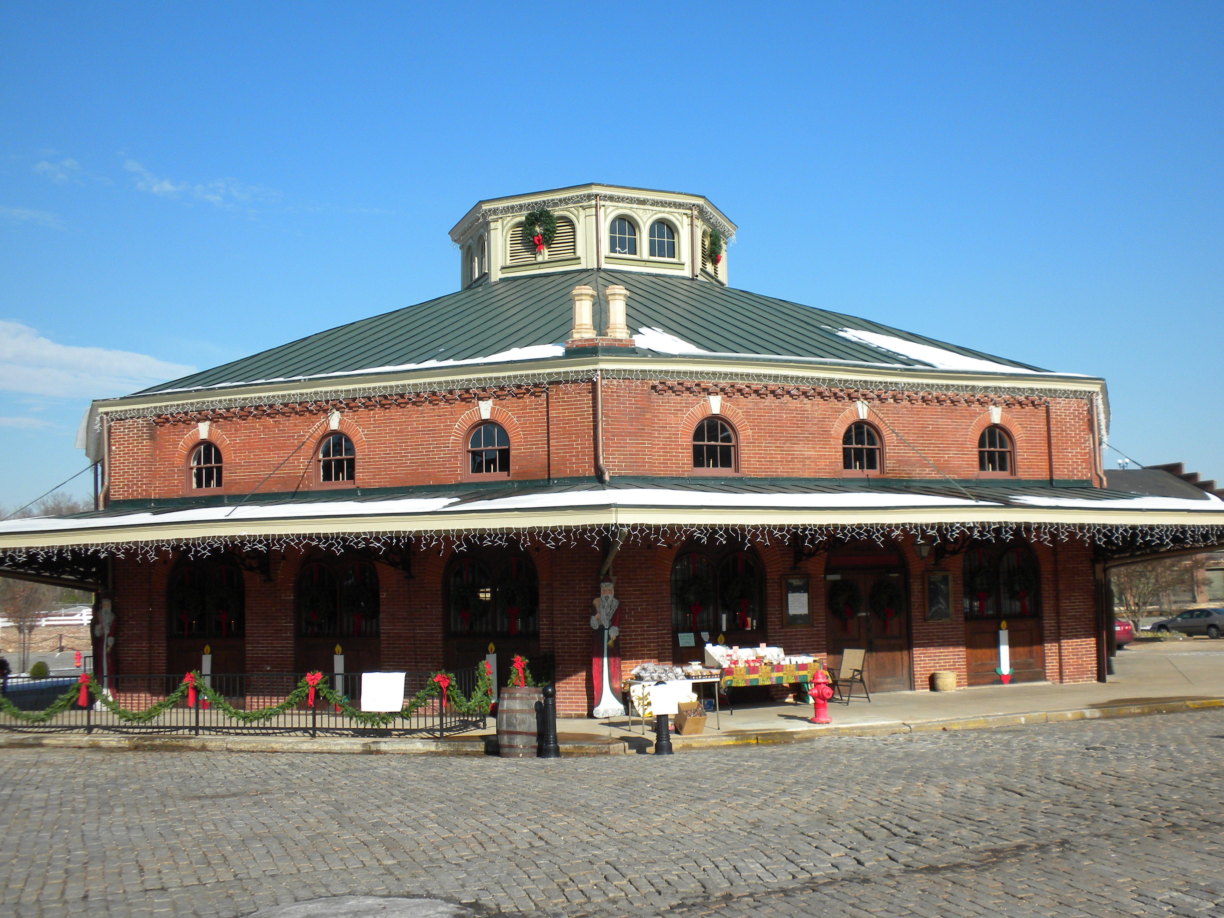 City Market in Petersburg, Virginia. On NRHP. I donate this photo to the public domain